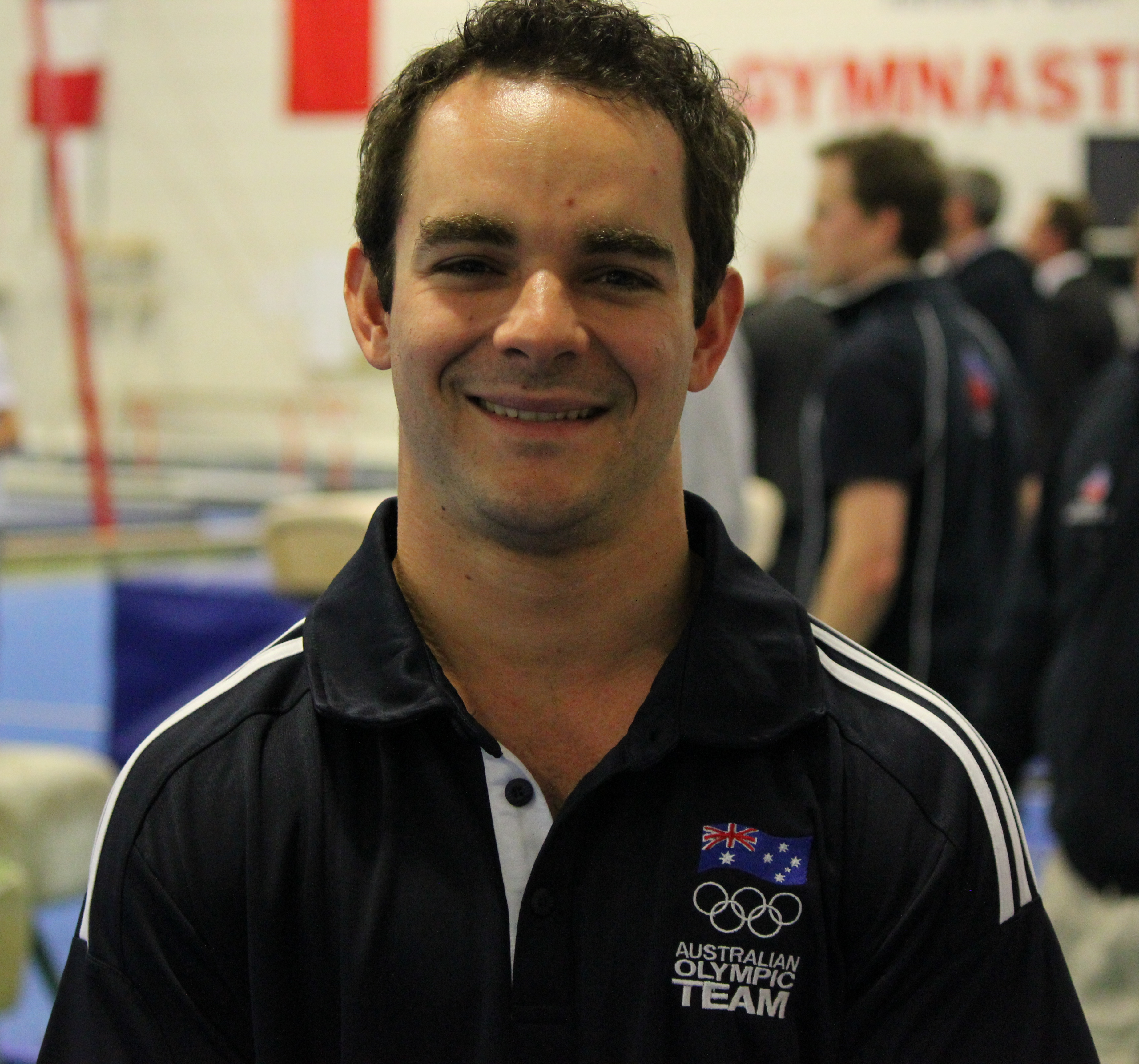 A head shot of an Australian gymnast or someone inside Gymnastics Australia.